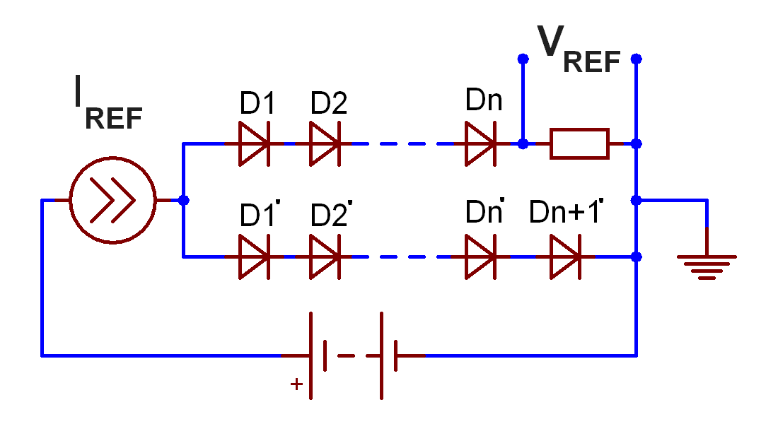 The simplest bandgap made with two strings of diodes. It works but requires supply voltage of at least 6V, - where plain zeners are just as good or better, and way simpler